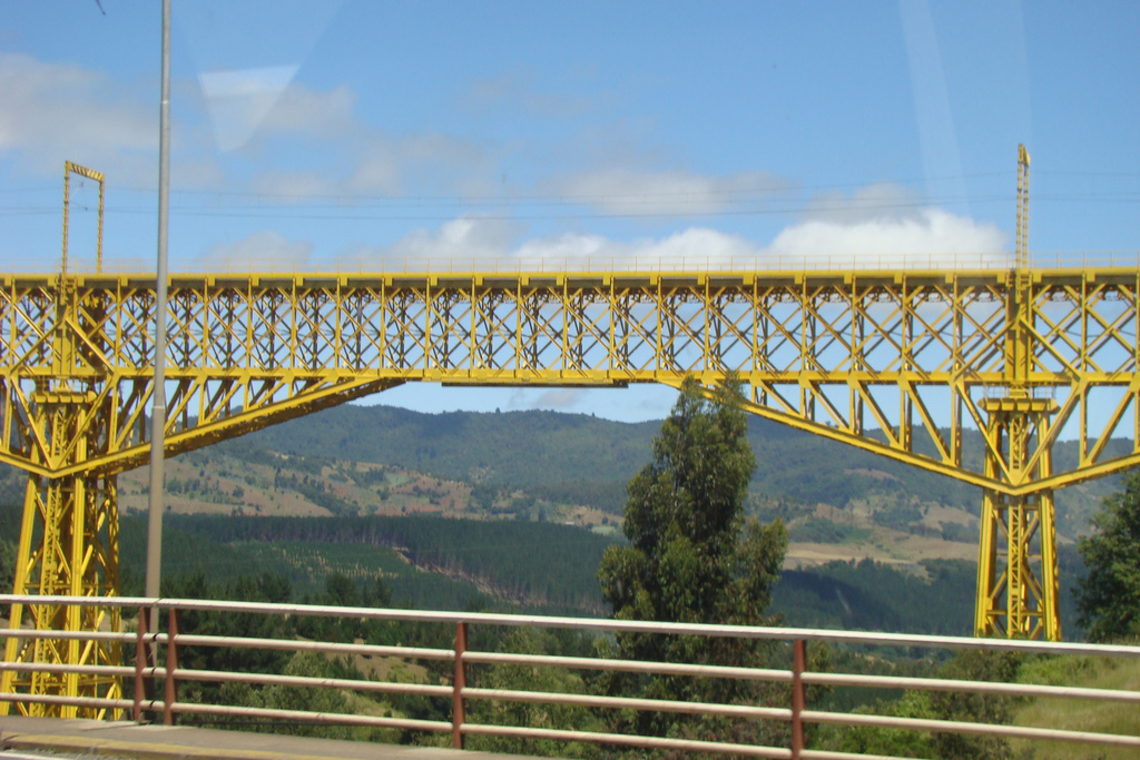 Malleco Viaduct, a railway bridge located in central Chile, passing through the Malleco River valley (Araucanía Region, Chile)